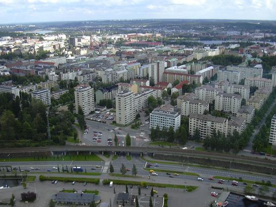 Tampere, Finland, from Näsinneula tower.